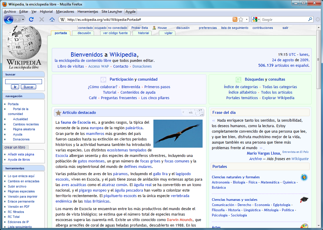 Mozilla Firefox 3.5 on Windows 7